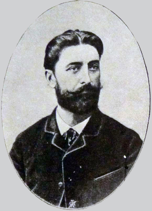 Akvsenti Tsagareli